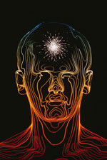 human mind for performance psychology DYK page